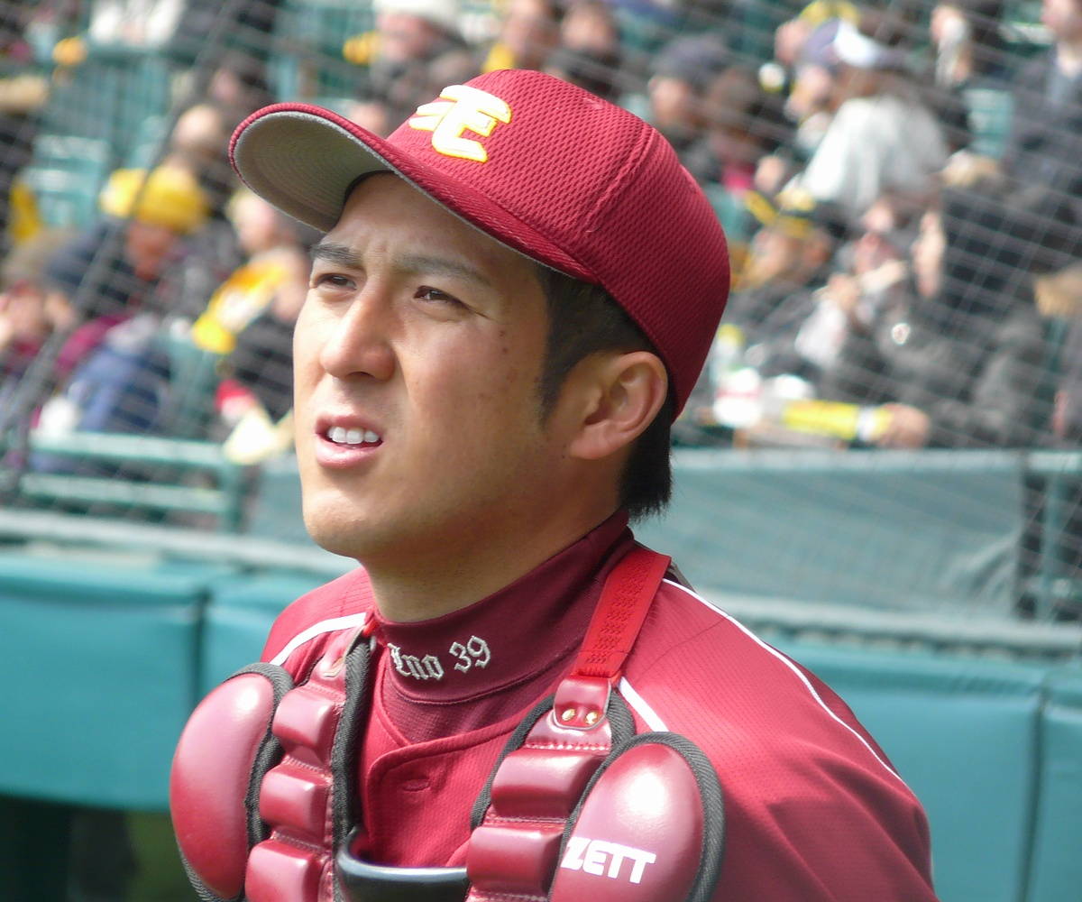 RE-Suguru-Ino20110309